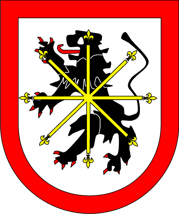 coats of arms of the county of Dagsburg